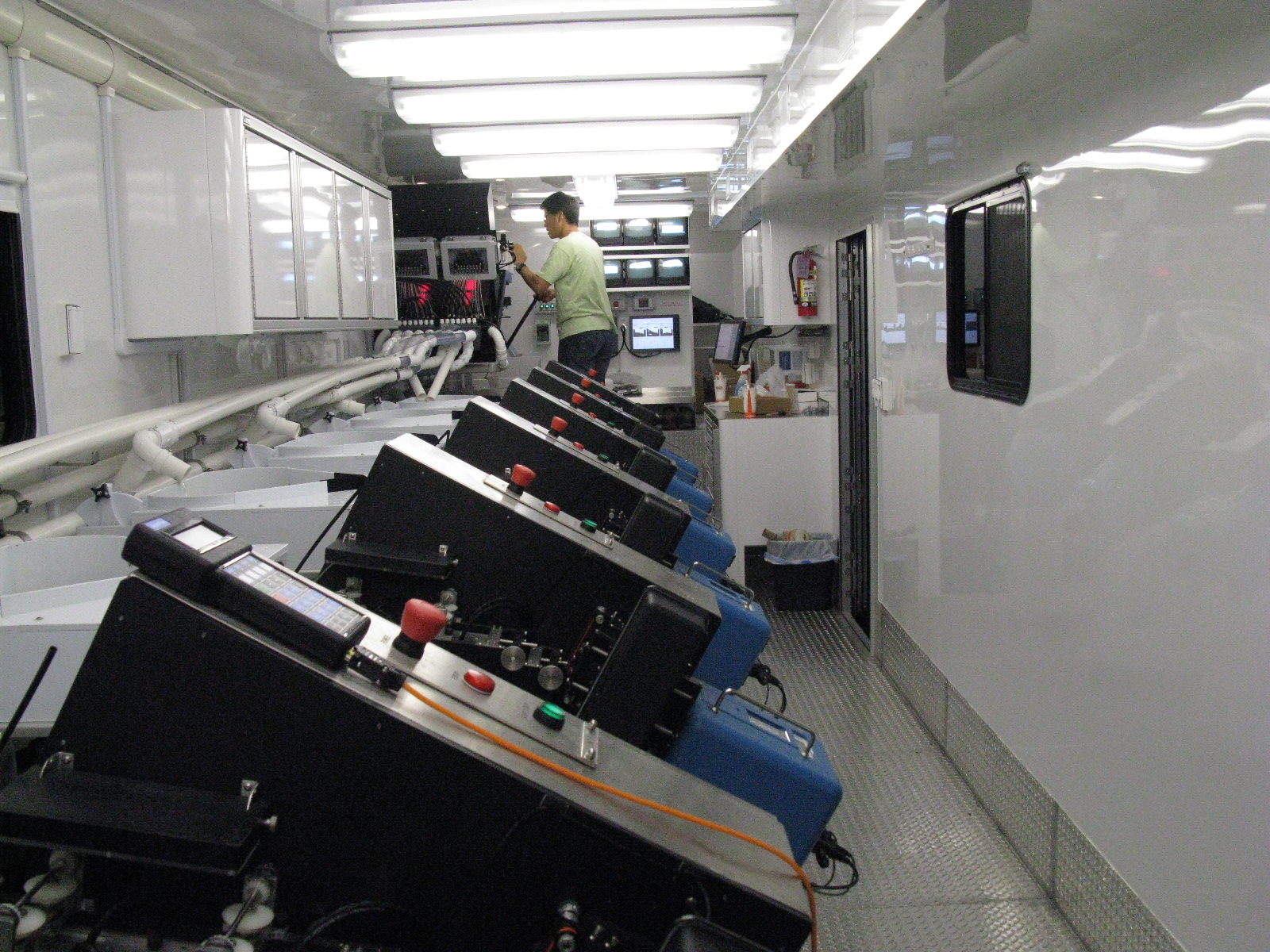 The inside of an autofish trailer used for mass marking juvenile fish with an adipose fin clip and a coded wire tag.